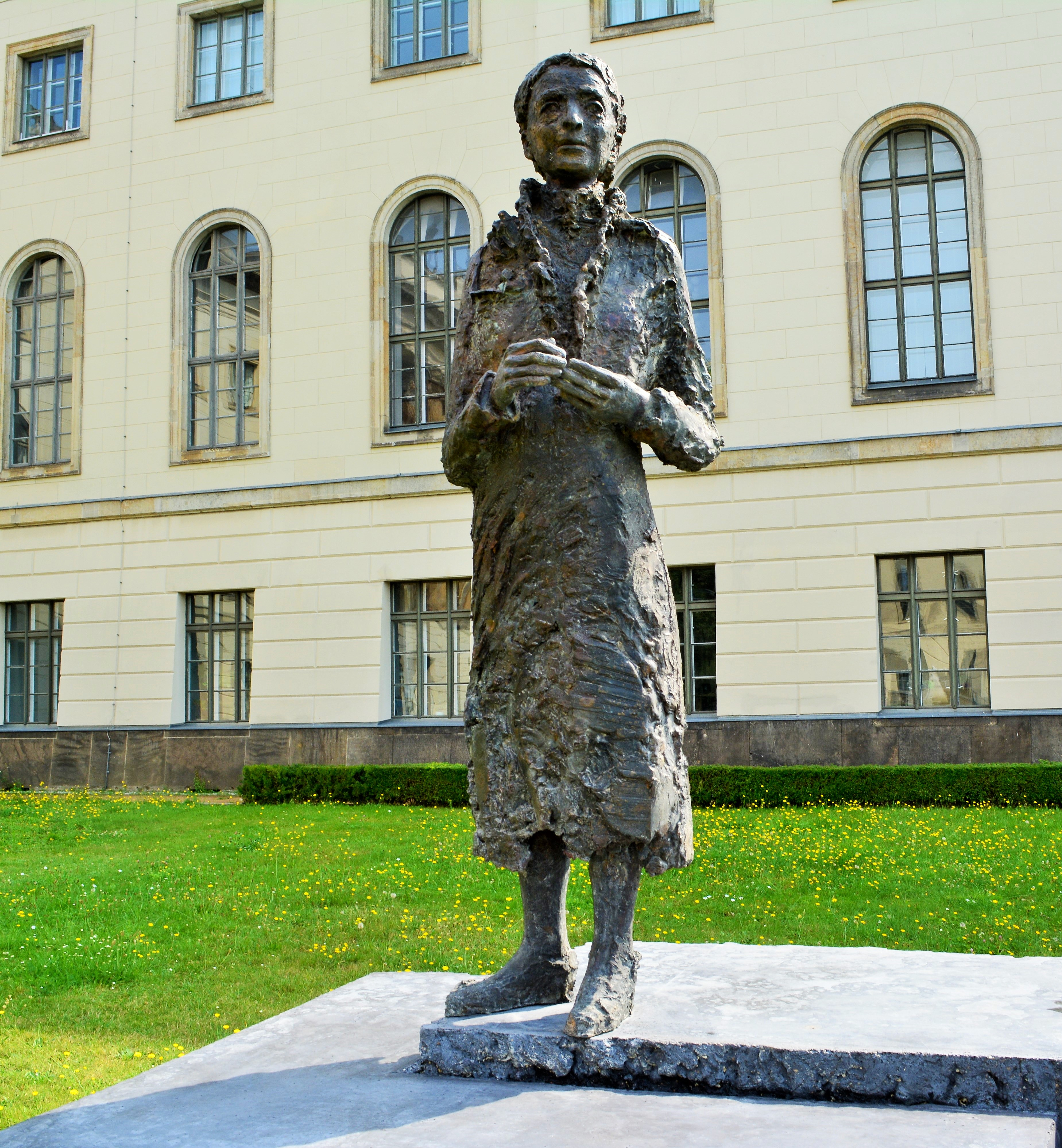 Memorial to the nuclear physicist Lise Meitner (1878-1968) erected in 2014 in the Court of Honor of the Humboldt University in Berlin. Anna Franziska Schwarzbach was the sculptor. Herbold, Astrid (9 July 2014). "Große Physikerin, späte Ehrung". Der Tagesspiegel.